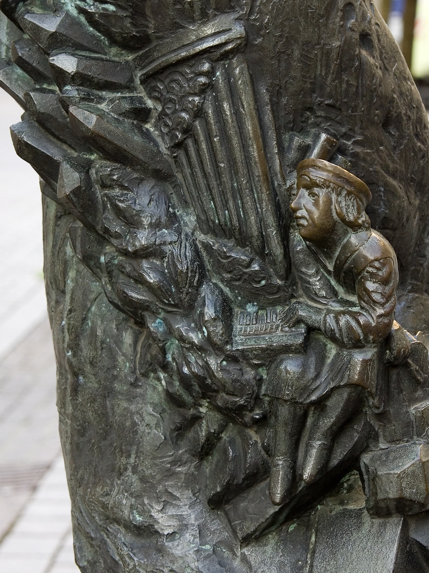 Freiberg, detail of a fountain (Fortuna-Brunnen) showing Gottfried Silbermann